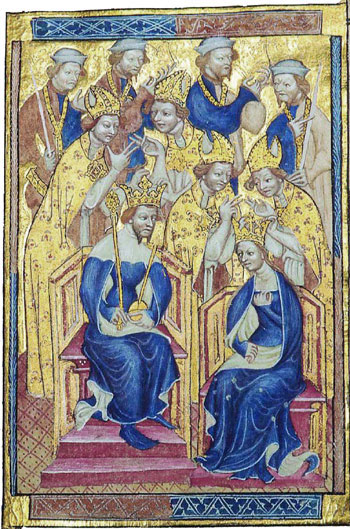 The Liber Regalis, showing Richard and Anne of Bohemia